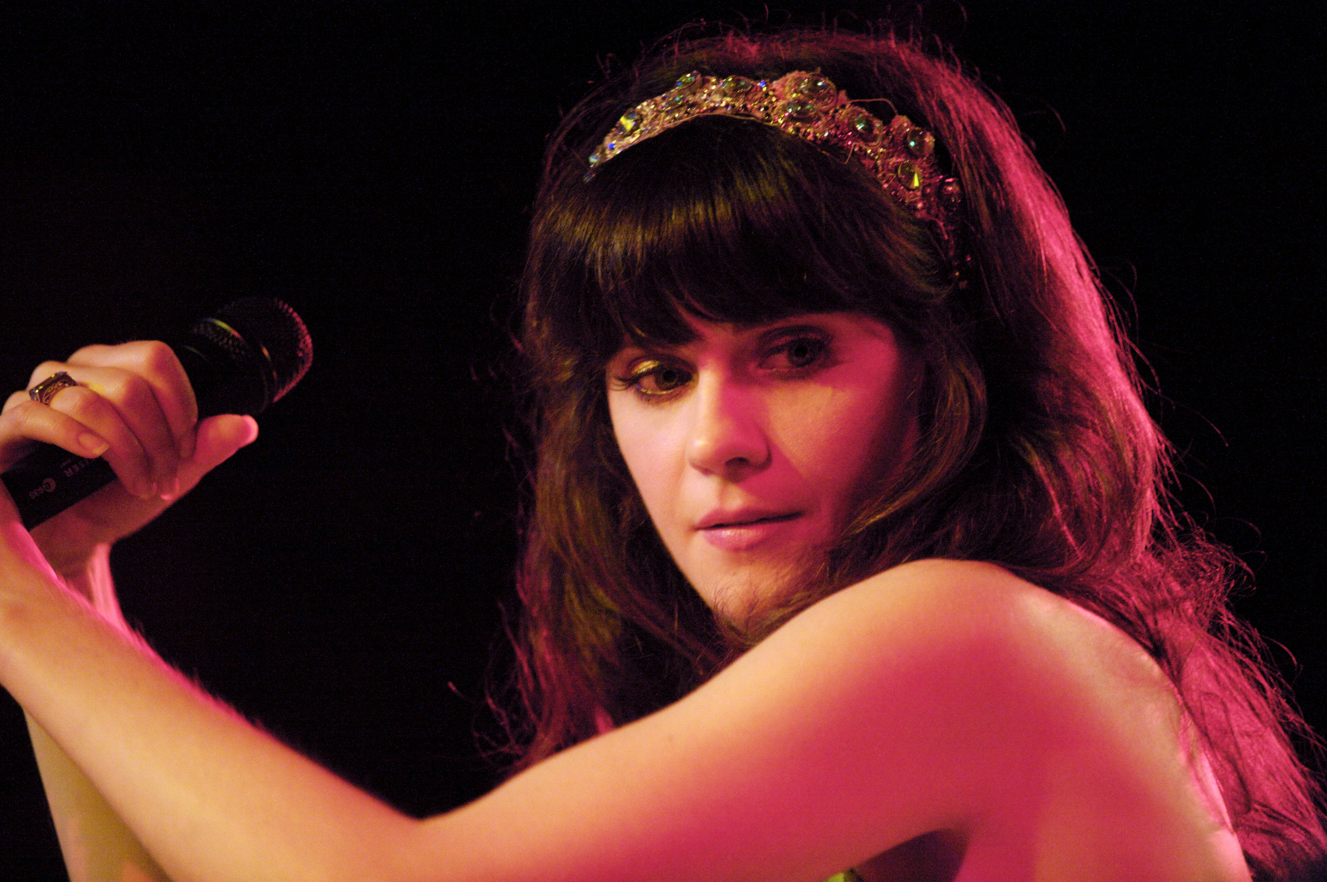 Zooey Deschanel performing as part of She & Him at Mercy Lounge in Nashville, TN